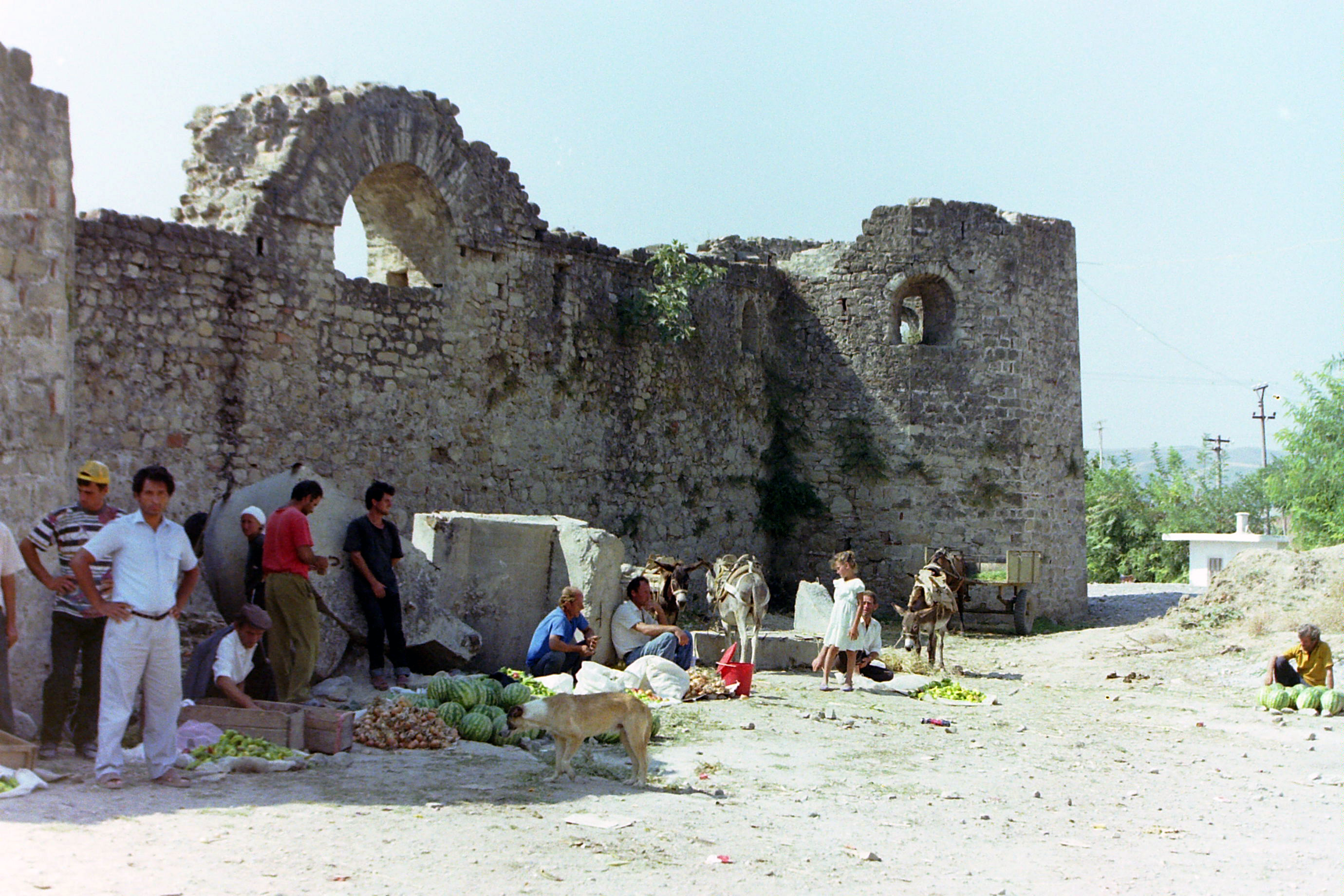 Flee market by the castle in Peqin, Albania in 1995